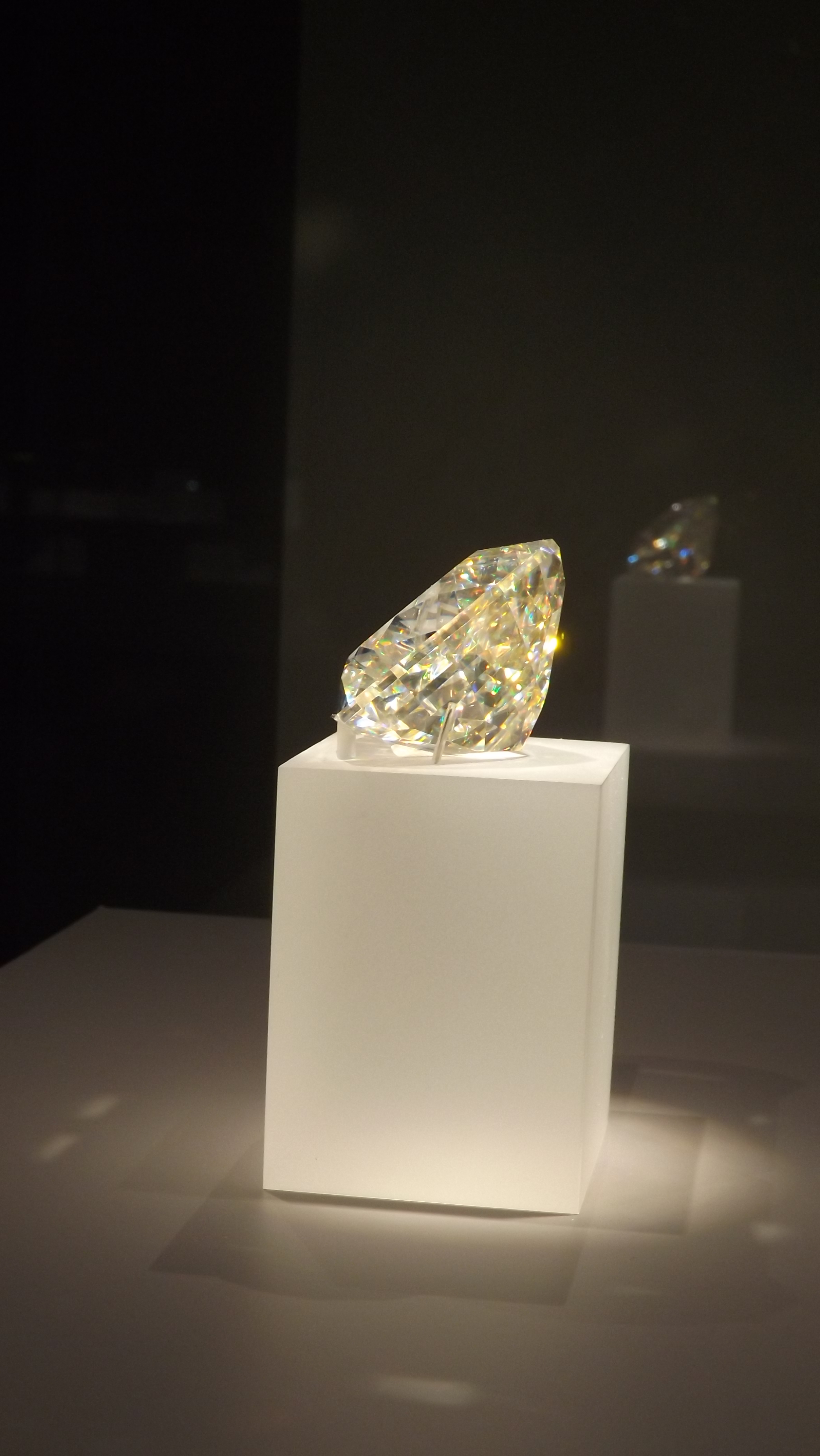 side view of the Light of the Desert at the Royal Ontario Museum